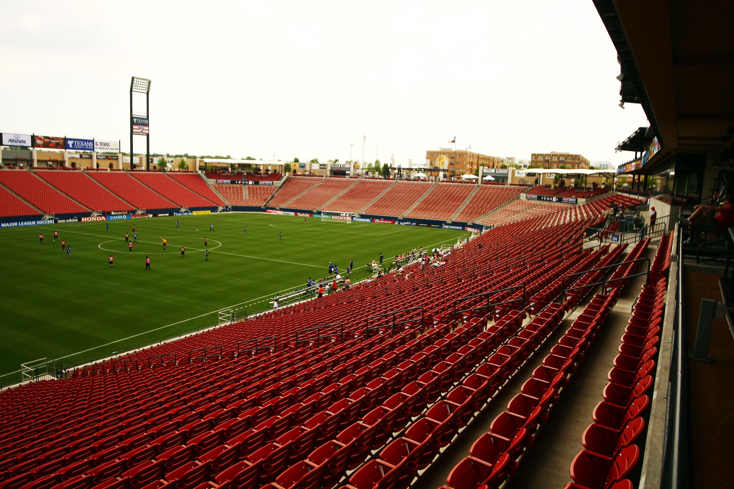 A match played in an almost empty Pizza Hut Park